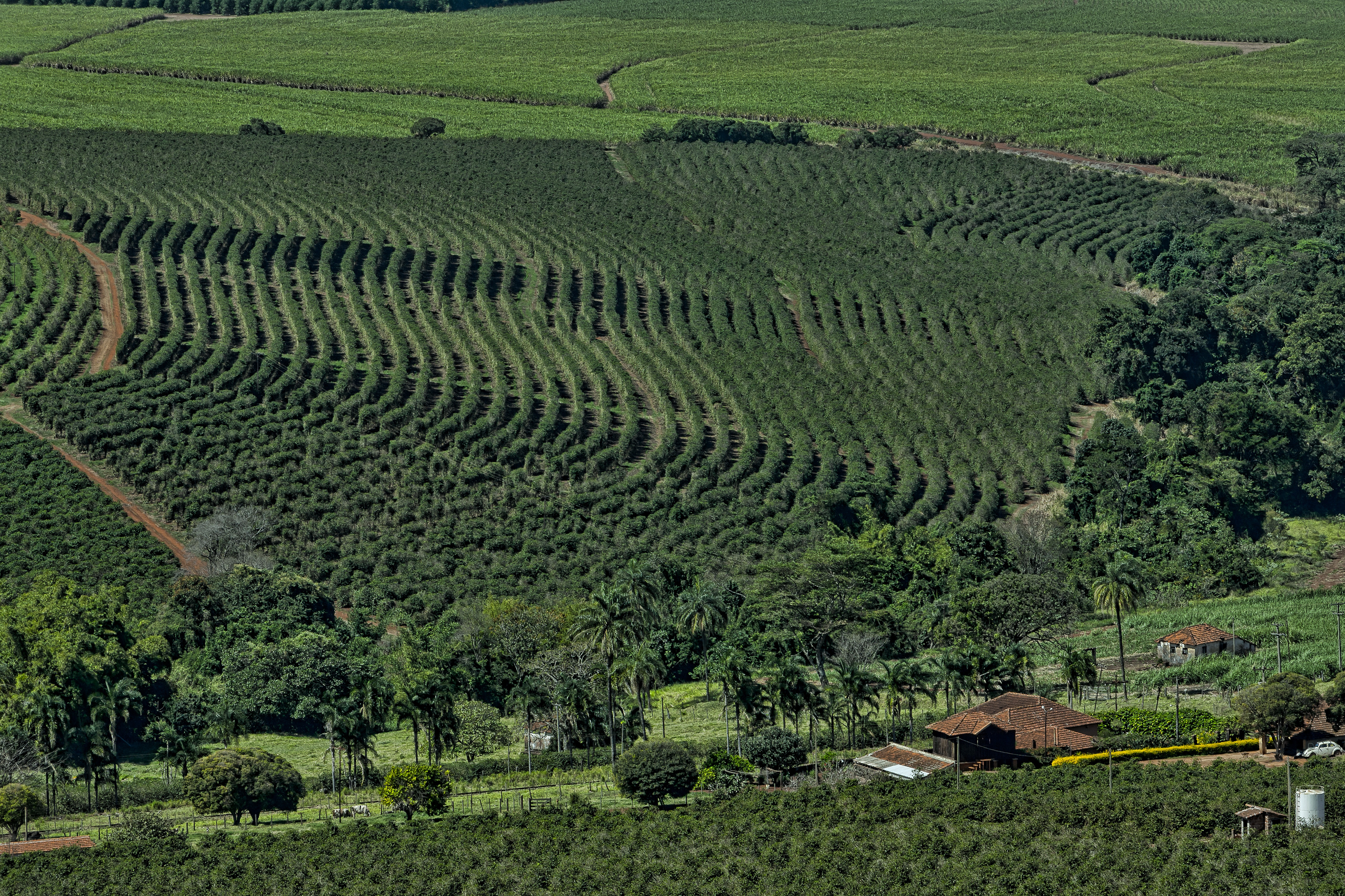 rows of coffee trees after recent harvest by machine and sugar cane growing in distance